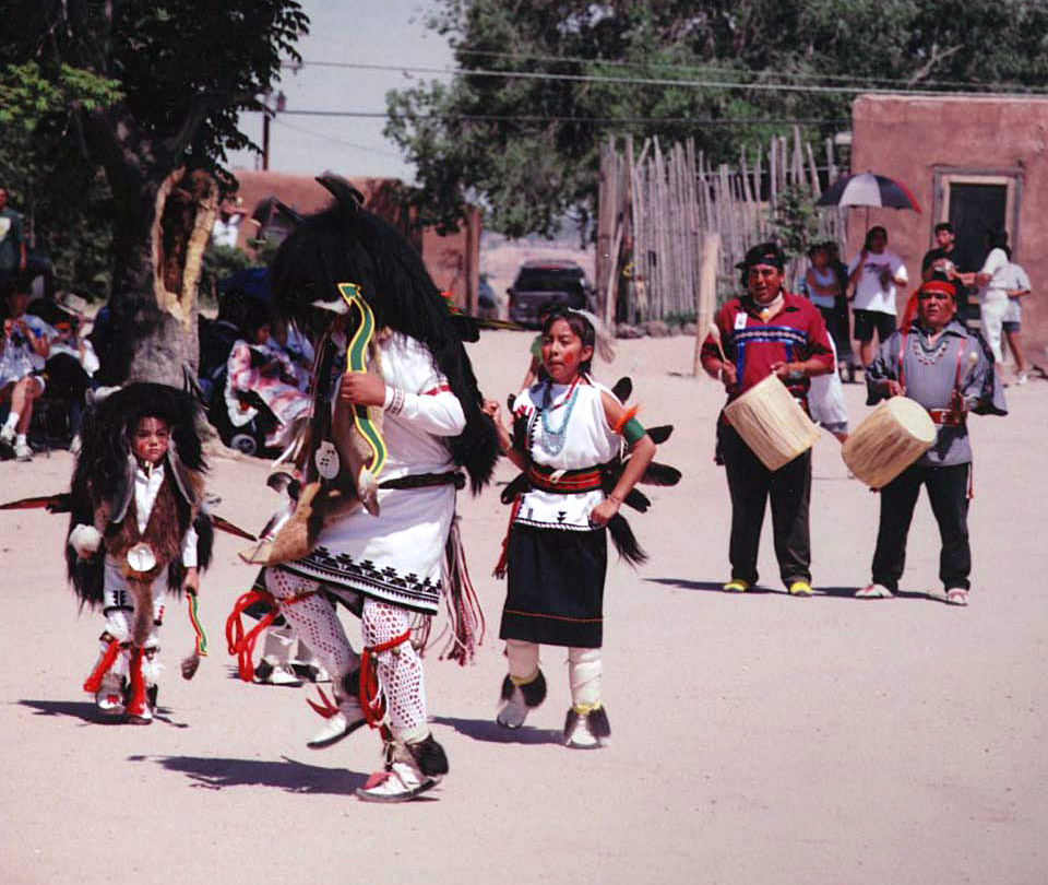 Buffalo Dance.